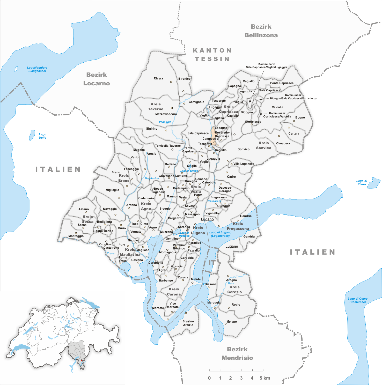 Municipality Campestro Artist: Tschubby